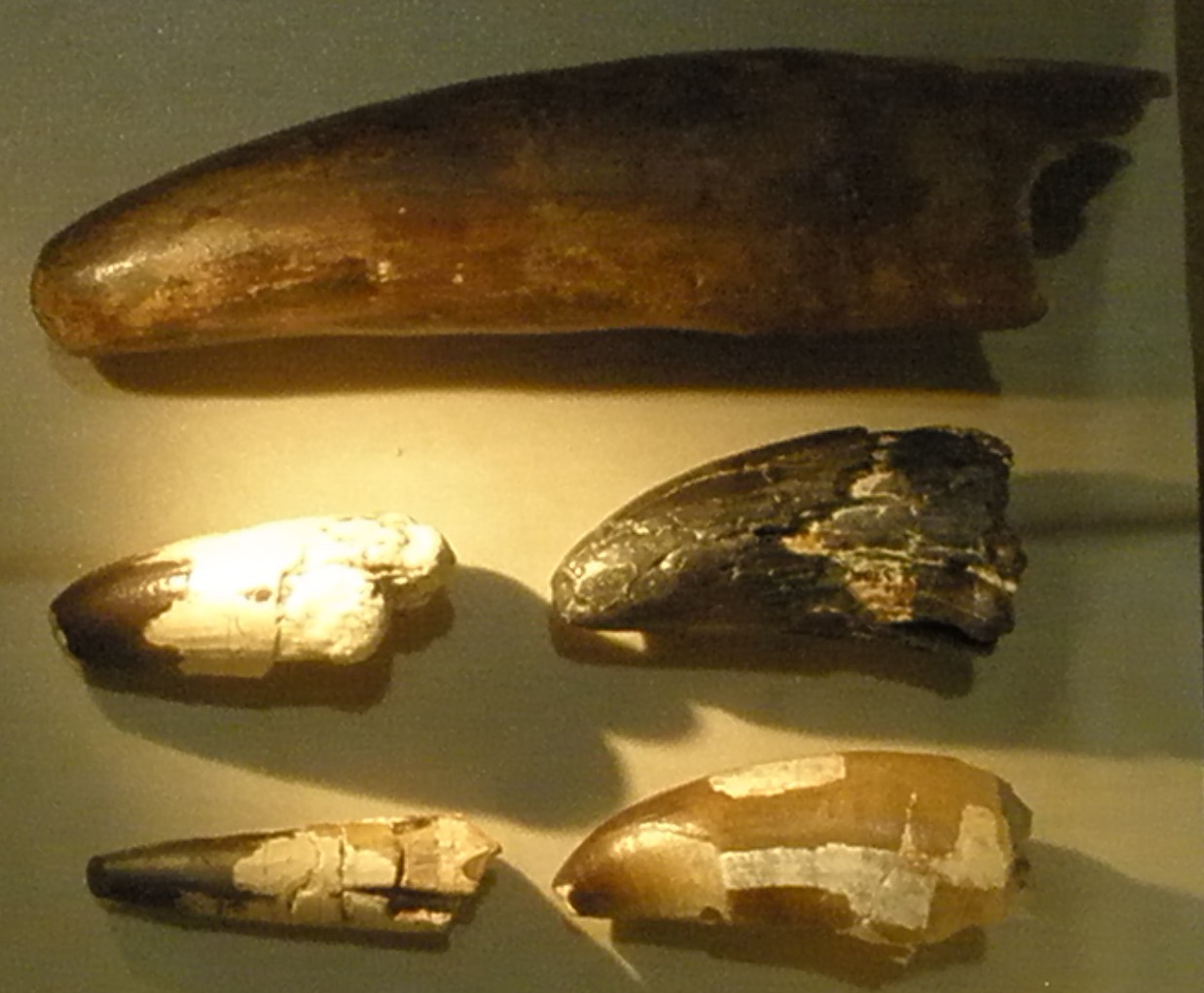 Took the photo at Museo di Storia Naturale di Venezia